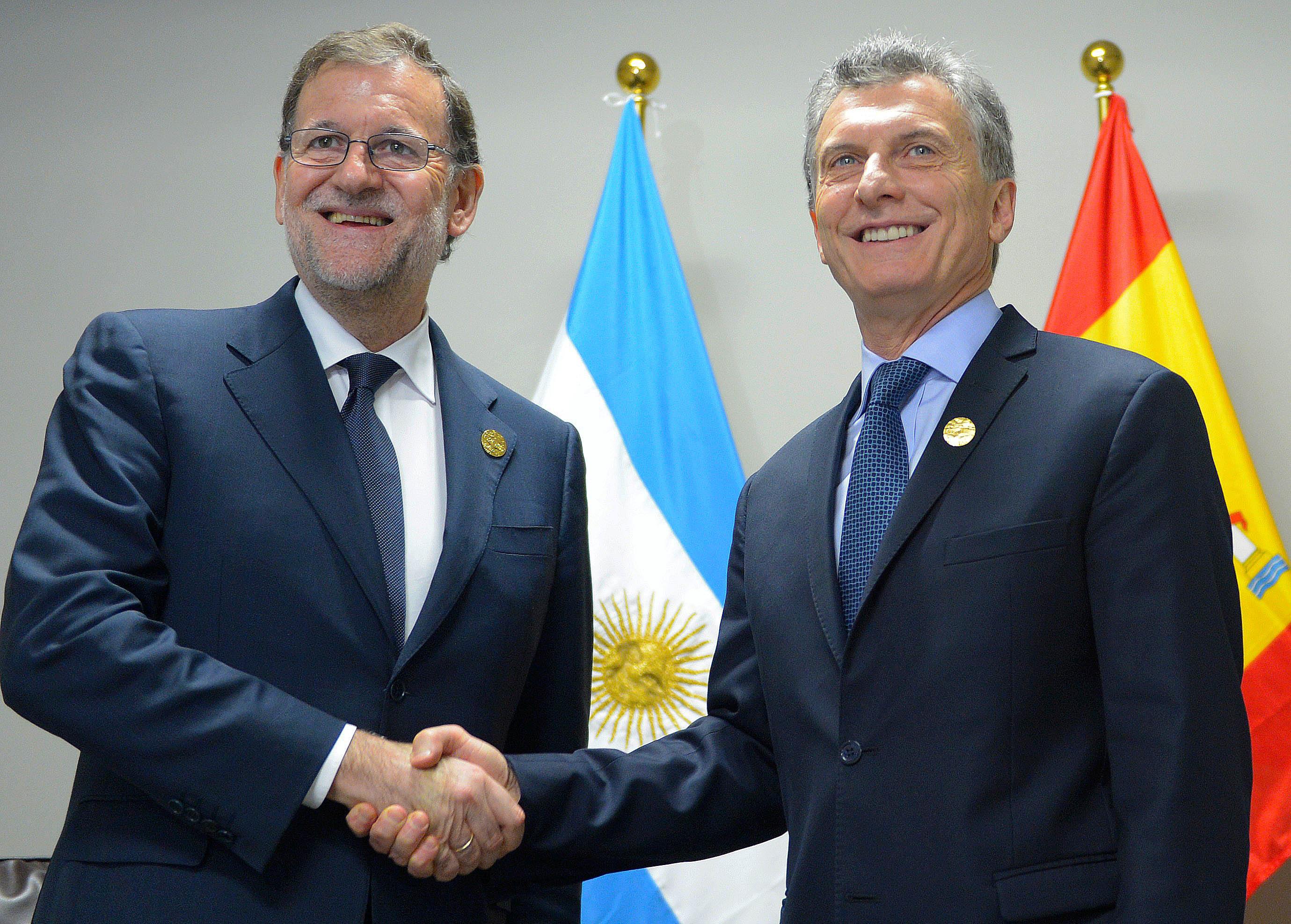 Argentina's president Mauricio Macri with his spanish counterpart, Mariano Rajoy.